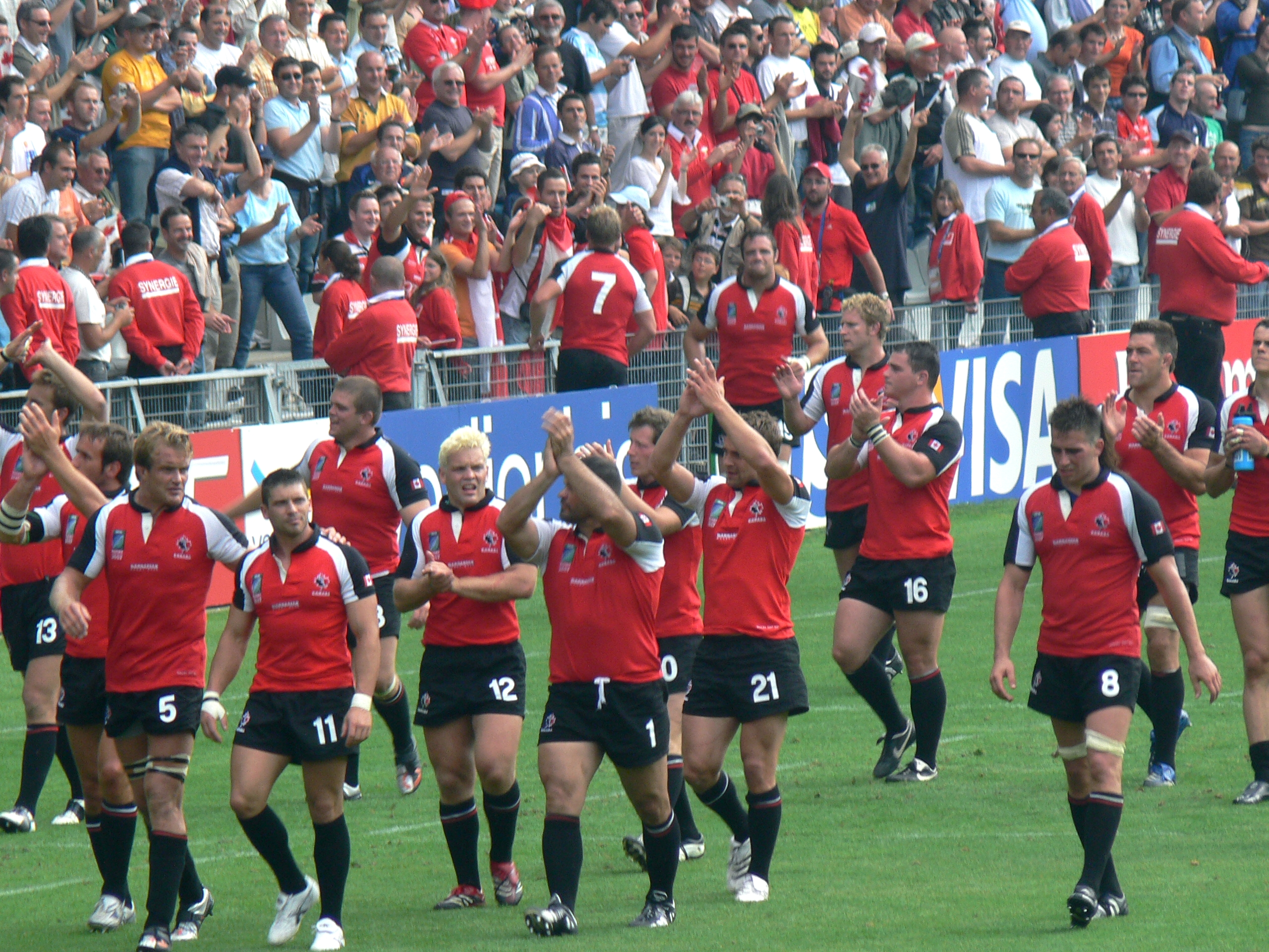 Canada national rugby union team during the 2007 rugby world cup in France (Nantes)